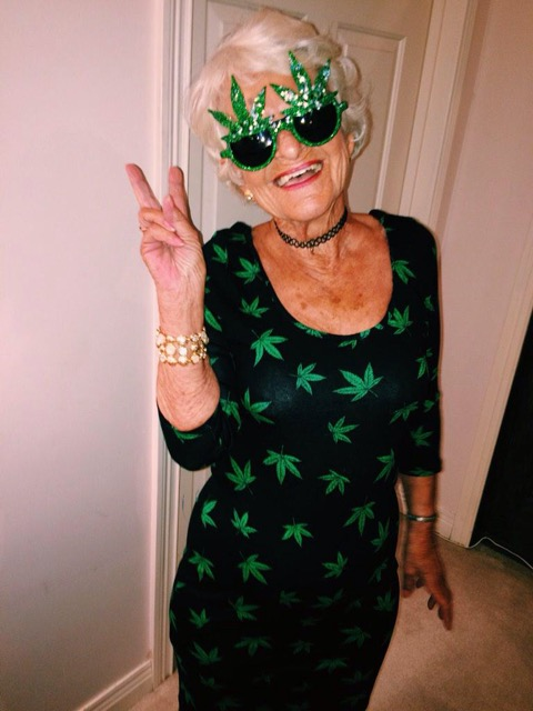 Photo of BaddieWinkle at her home